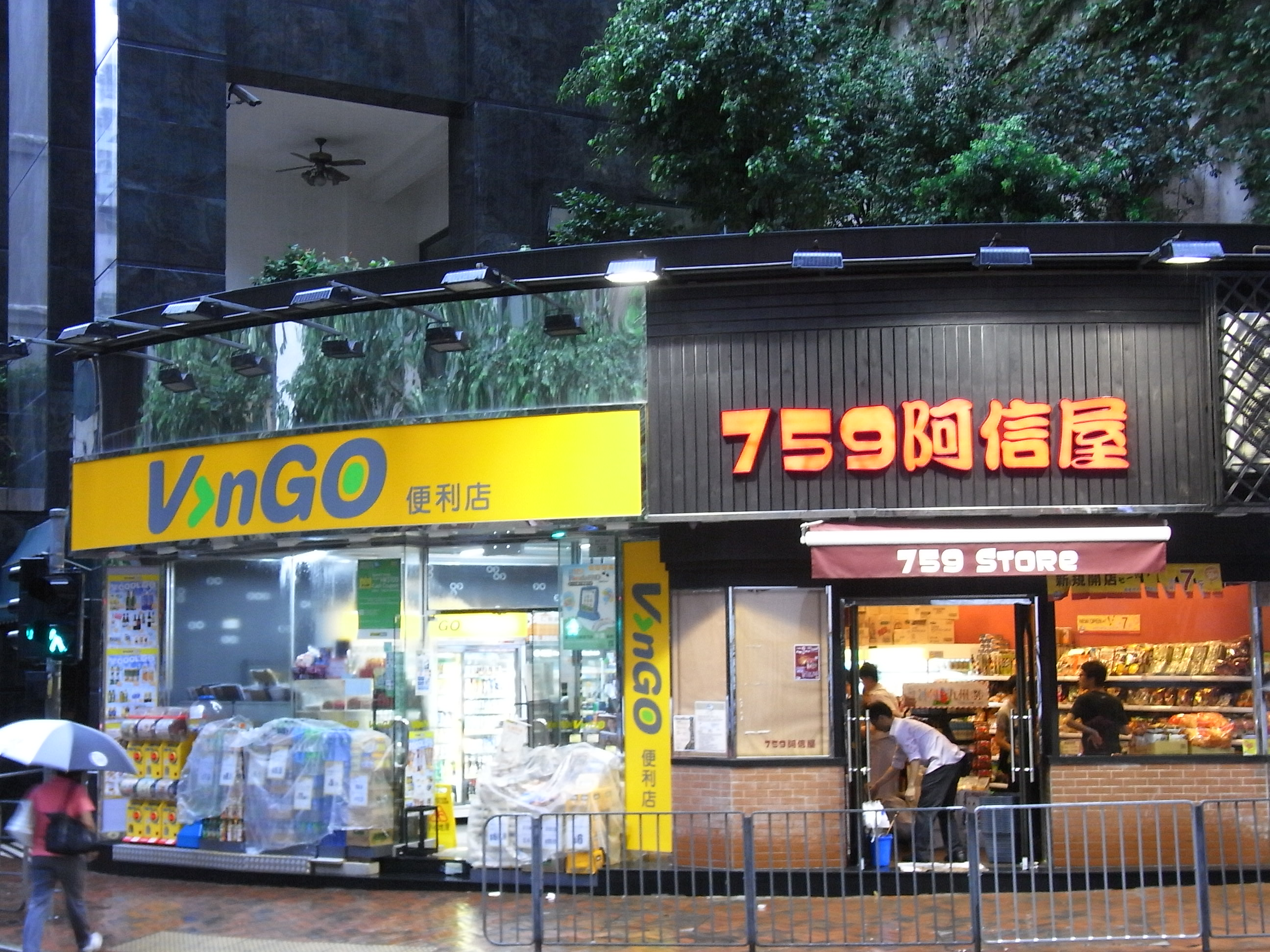 759 Store, Queen's Road Central, Hong Kong